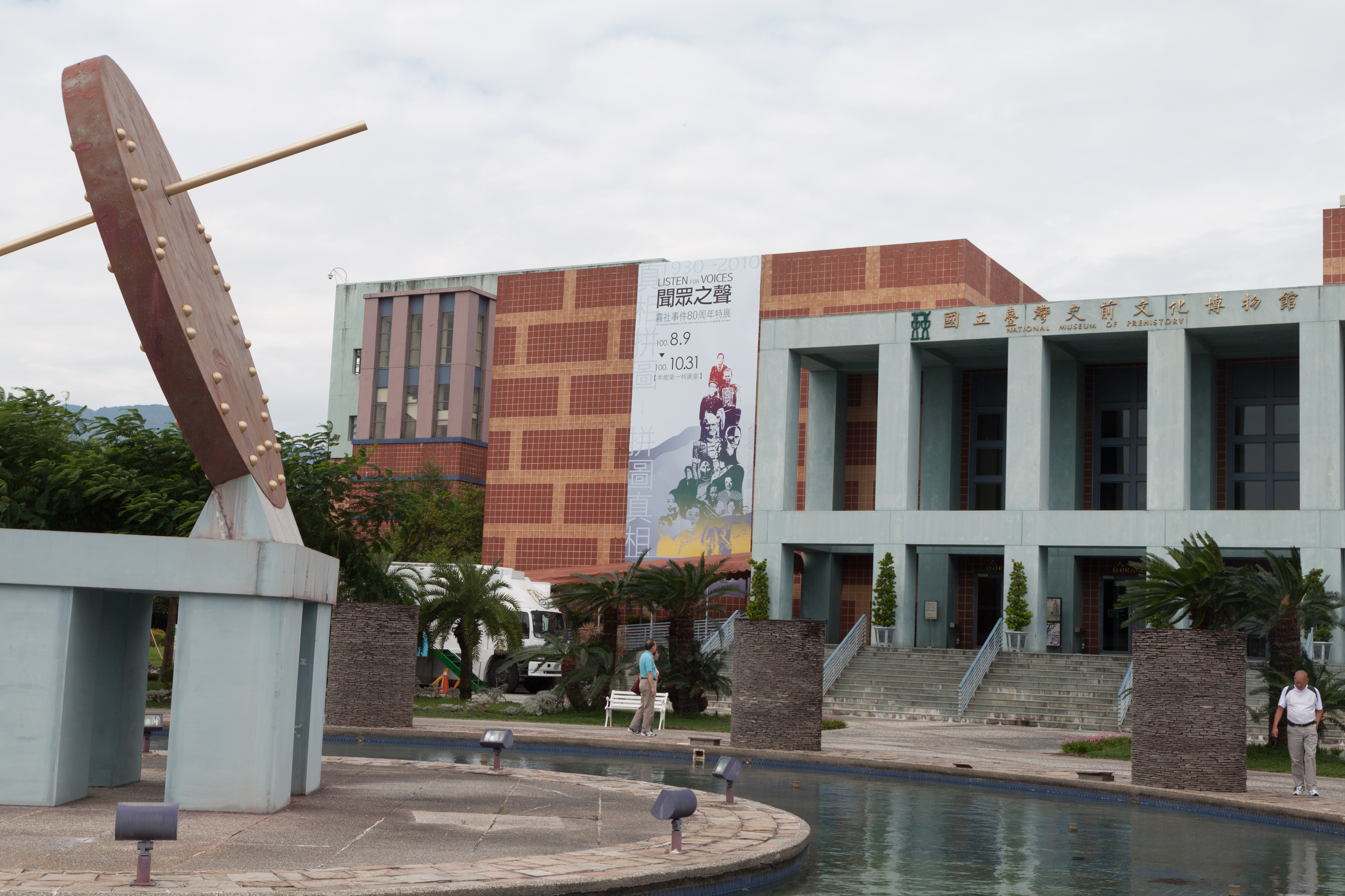 National Museum of Prehistory